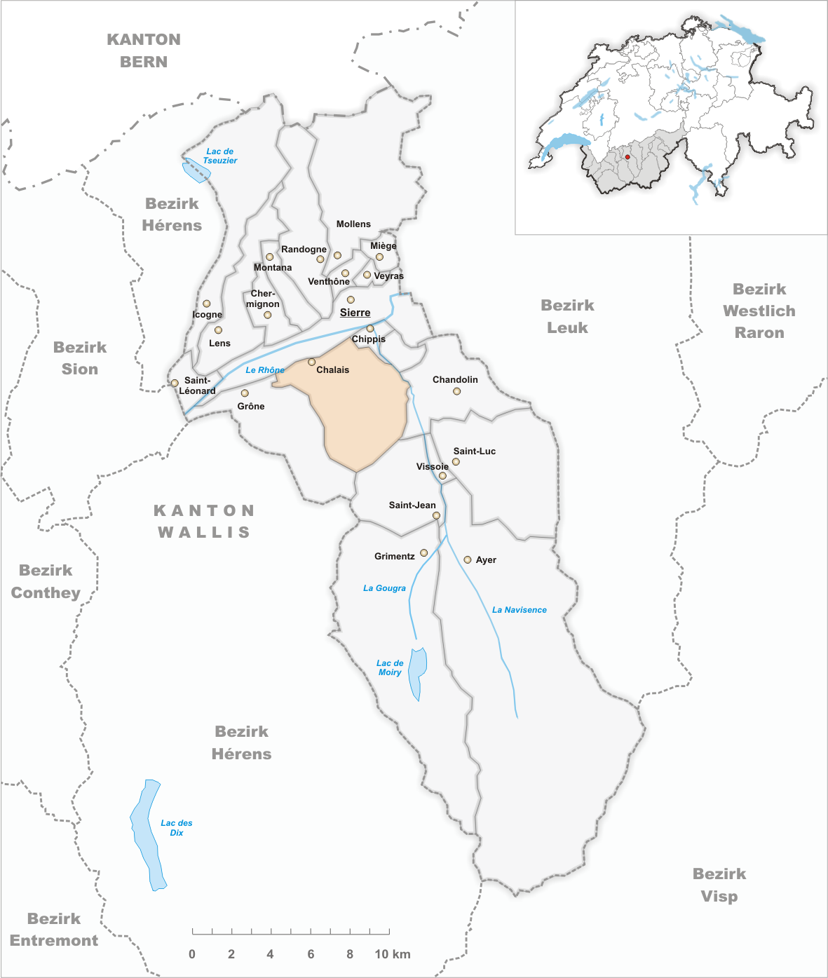 Municipality Chalais